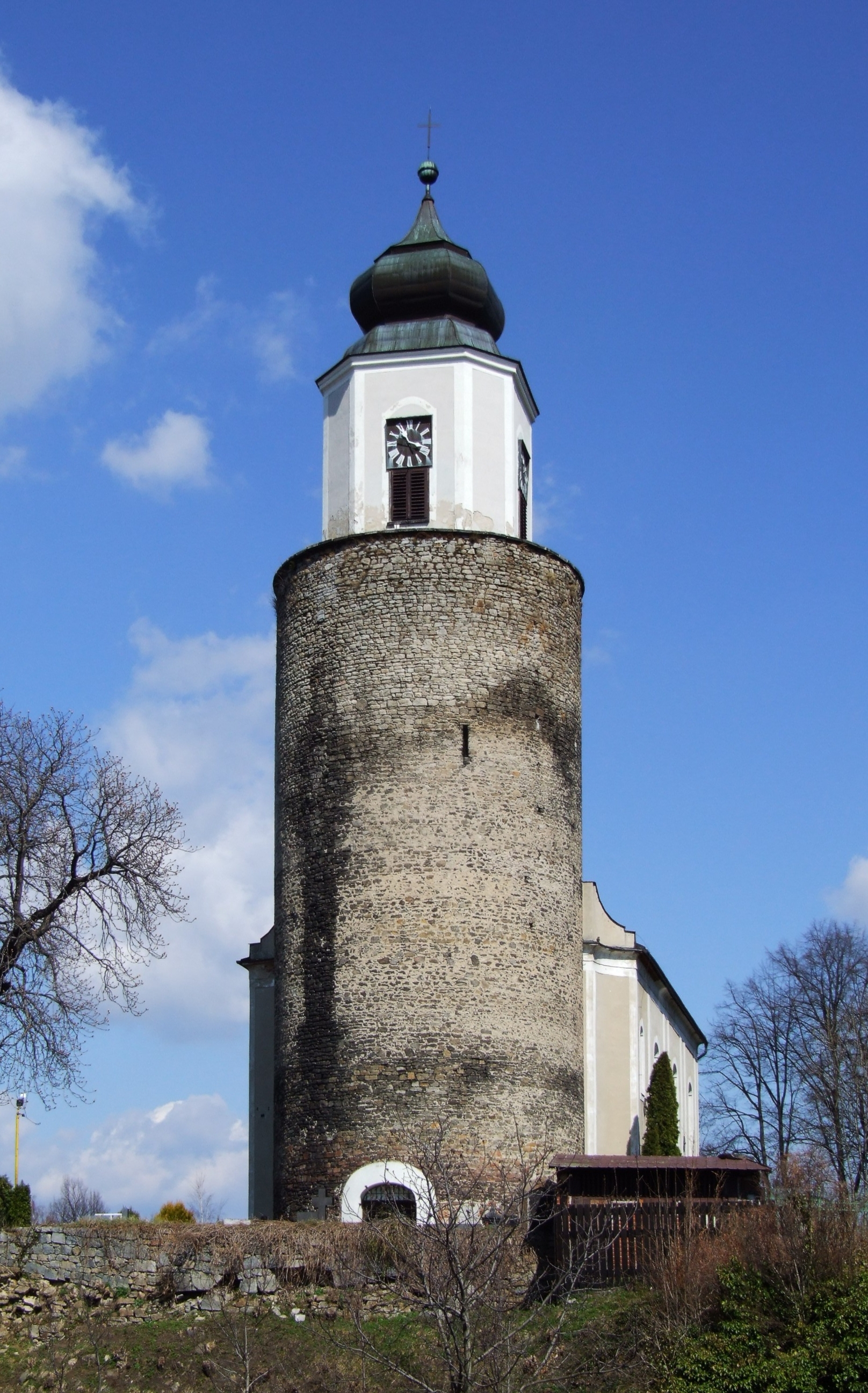 Žulová (Friedberg) - St. Joseph church. The tower was part of castle Friedberg